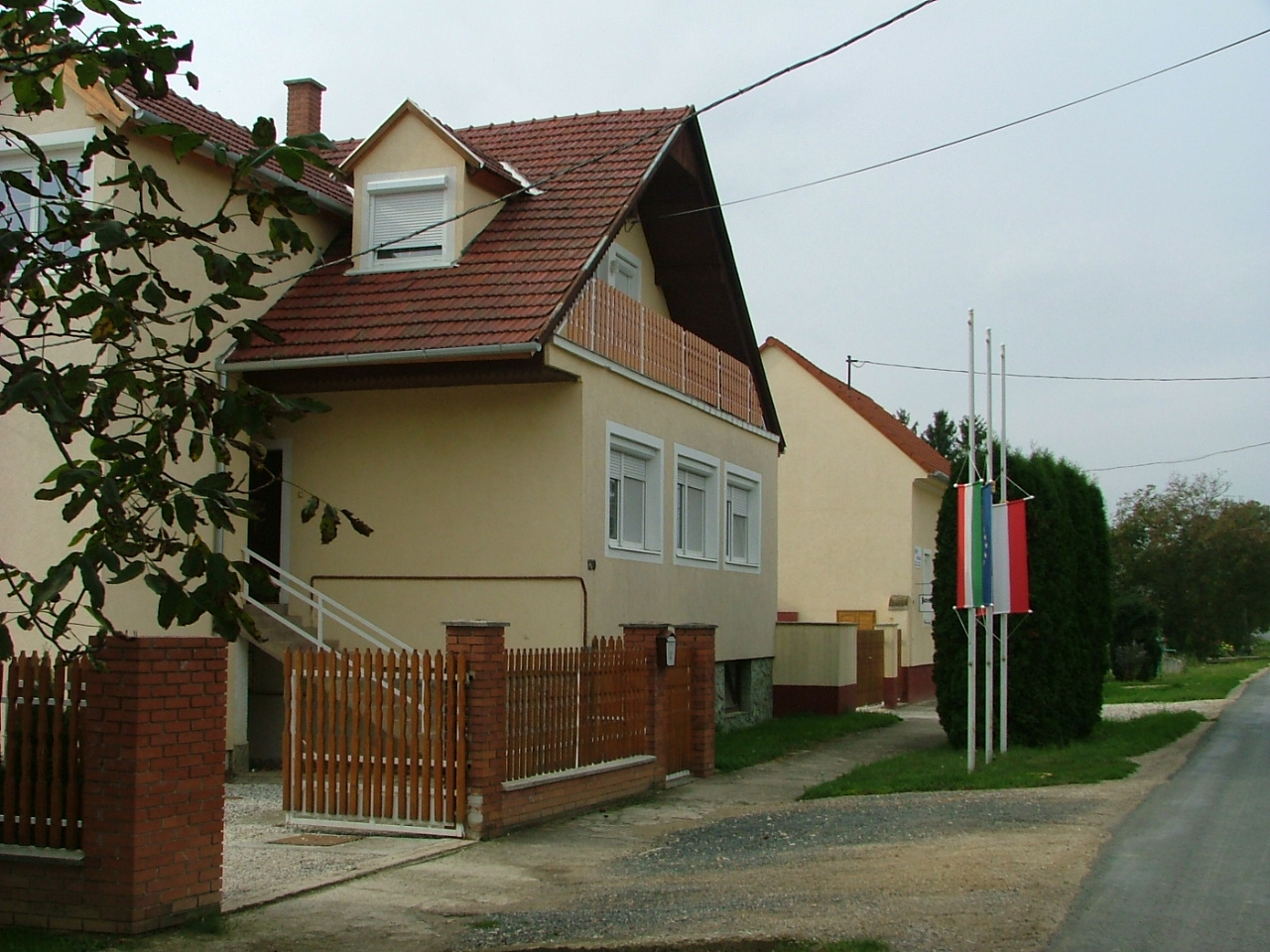 Szakony, building at the county's border